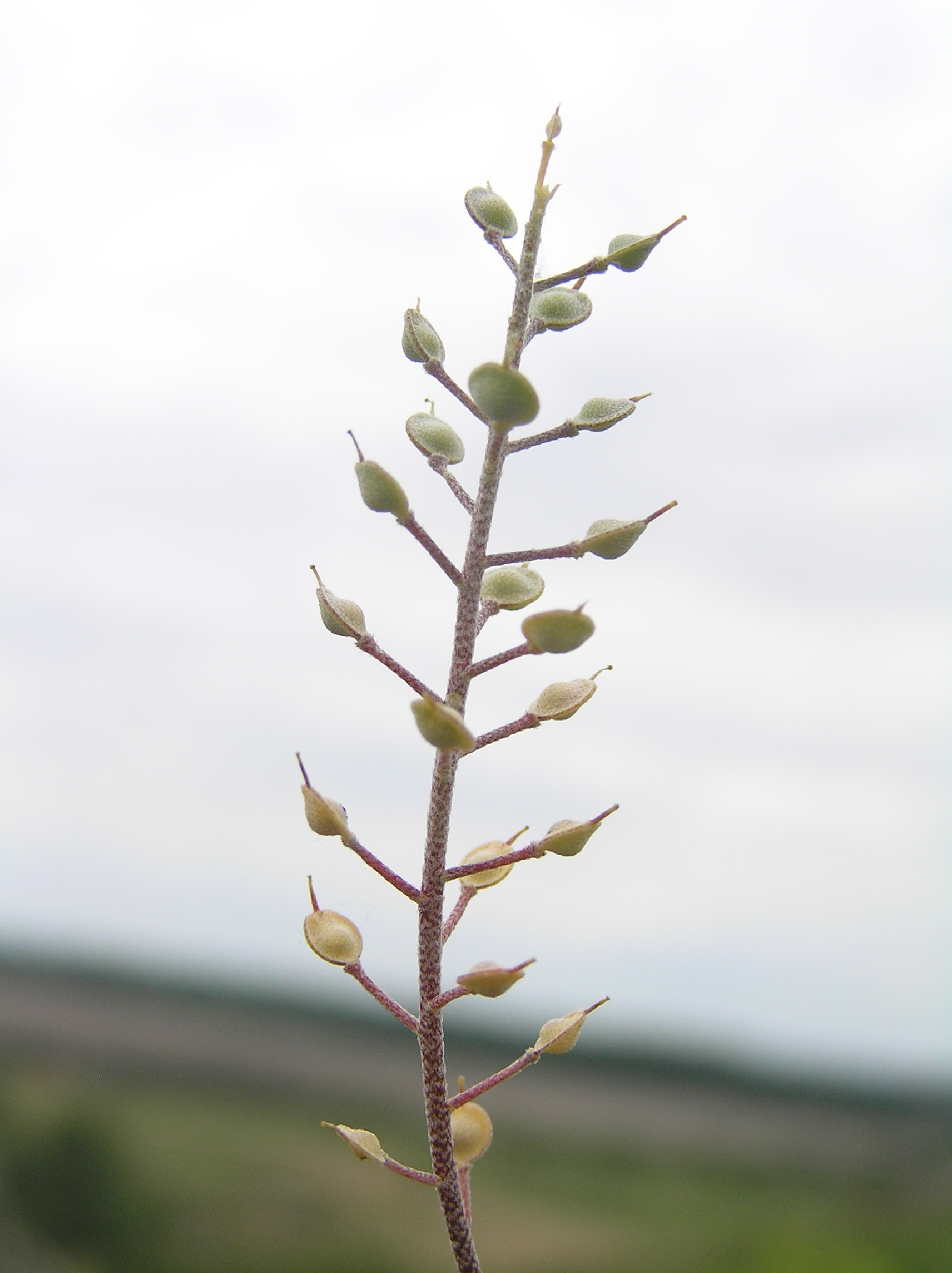 Alyssum montanum, the hill Šibeničník near Mikulov, Southern Moravia, Czech Republic